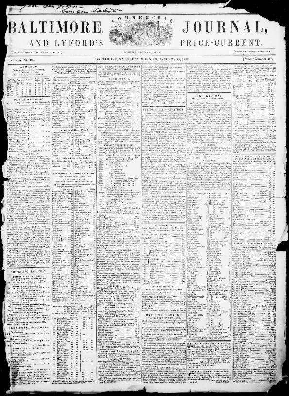 Front page of the January, 23, 1847, issue of the Baltimore Commercial Journal, and Lyford's Price-Current. via Chronicling America